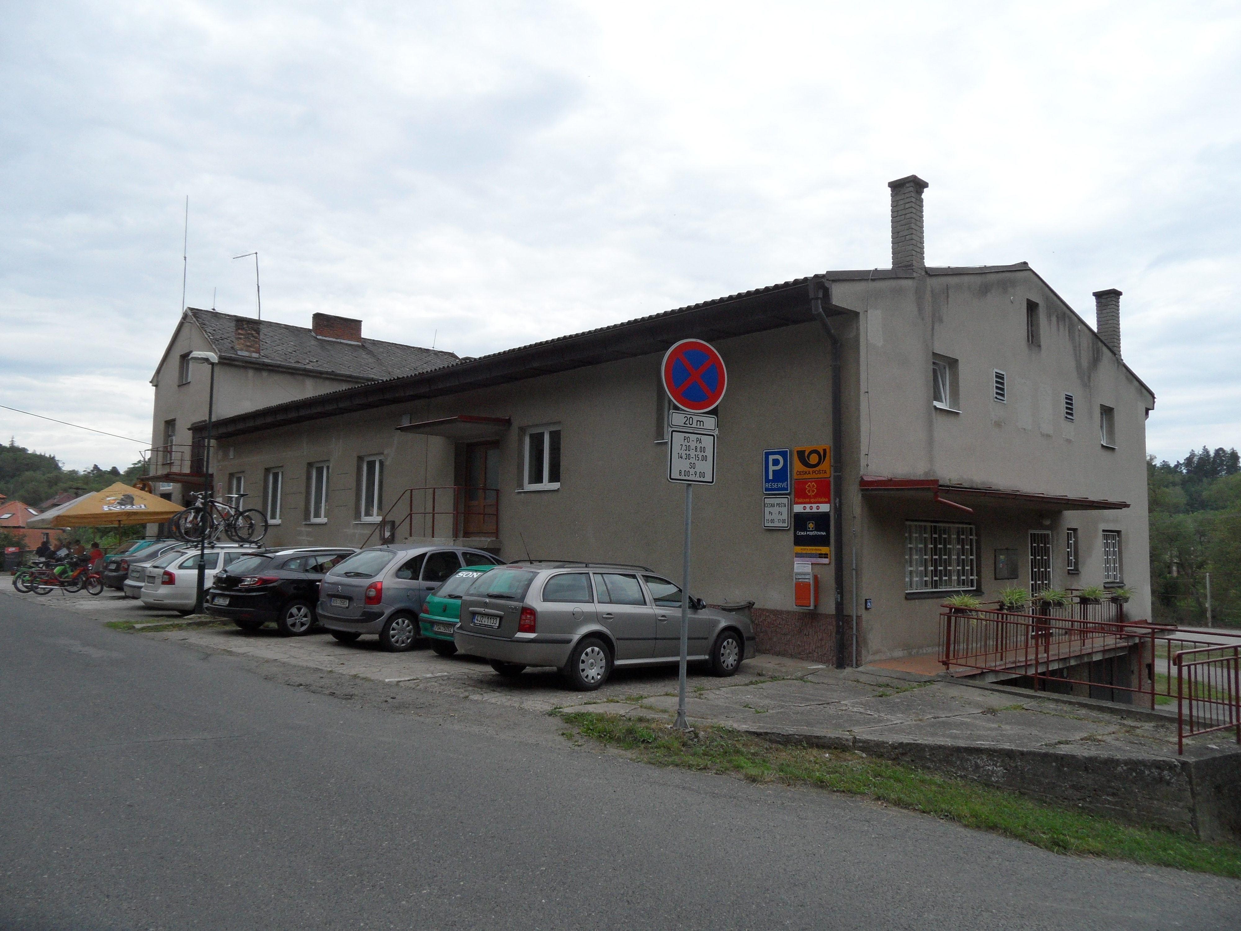 Vlastějovice F. Building of Municipality Office, Kutná Hora District, the Czech Republic.